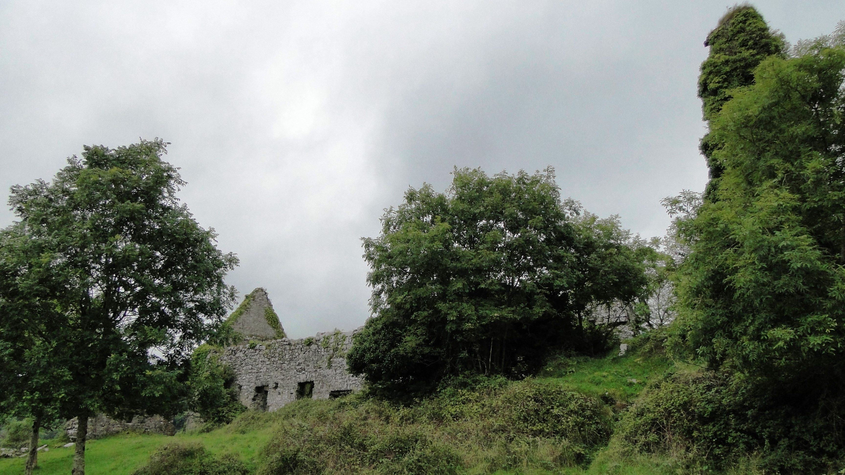 Ruins of Inchiquin Castle near Corofin, County Clare, Ireland. View of the outside, main building on the left, overgrown Tower to the right.